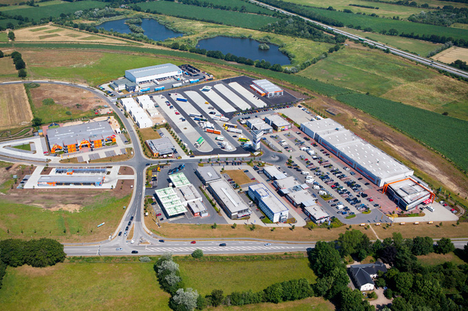 Air view of the Scandinavian Park in Handewitt/Germany.